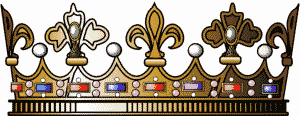 Crown of the French Princes du Sang (nobles in the descendance of Louis IX).